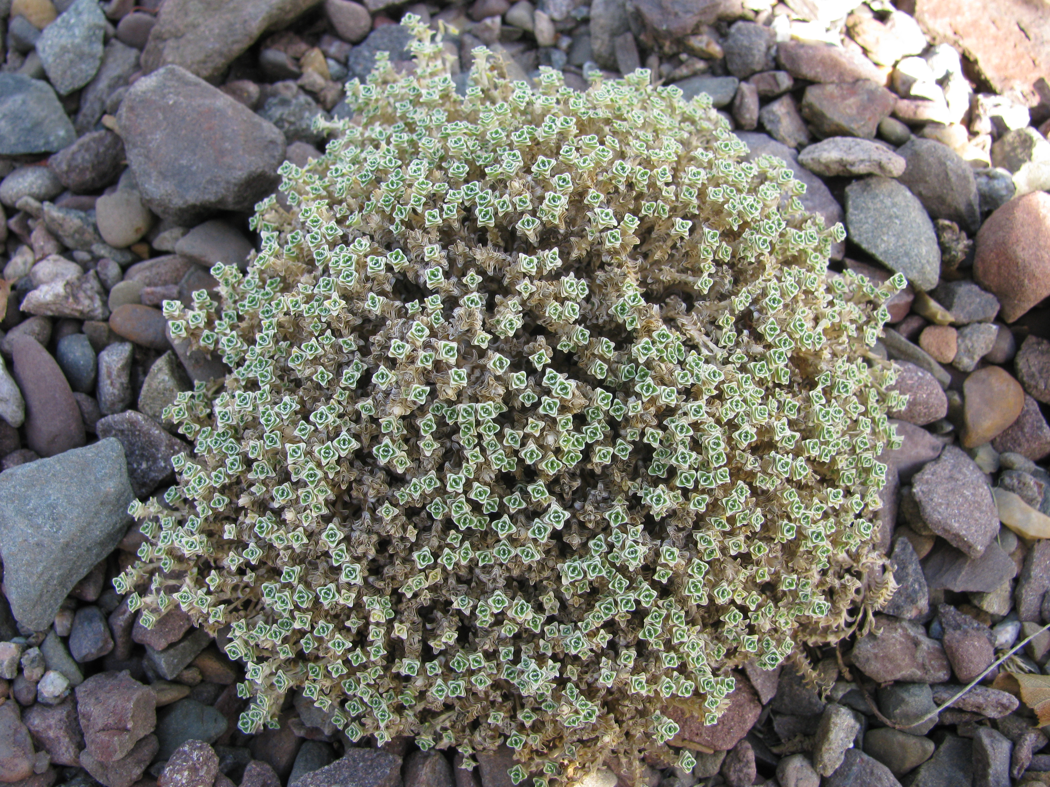 Arenaria lithops Royal Botanic Garden Edinburgh: Accession number 1978.1618 H